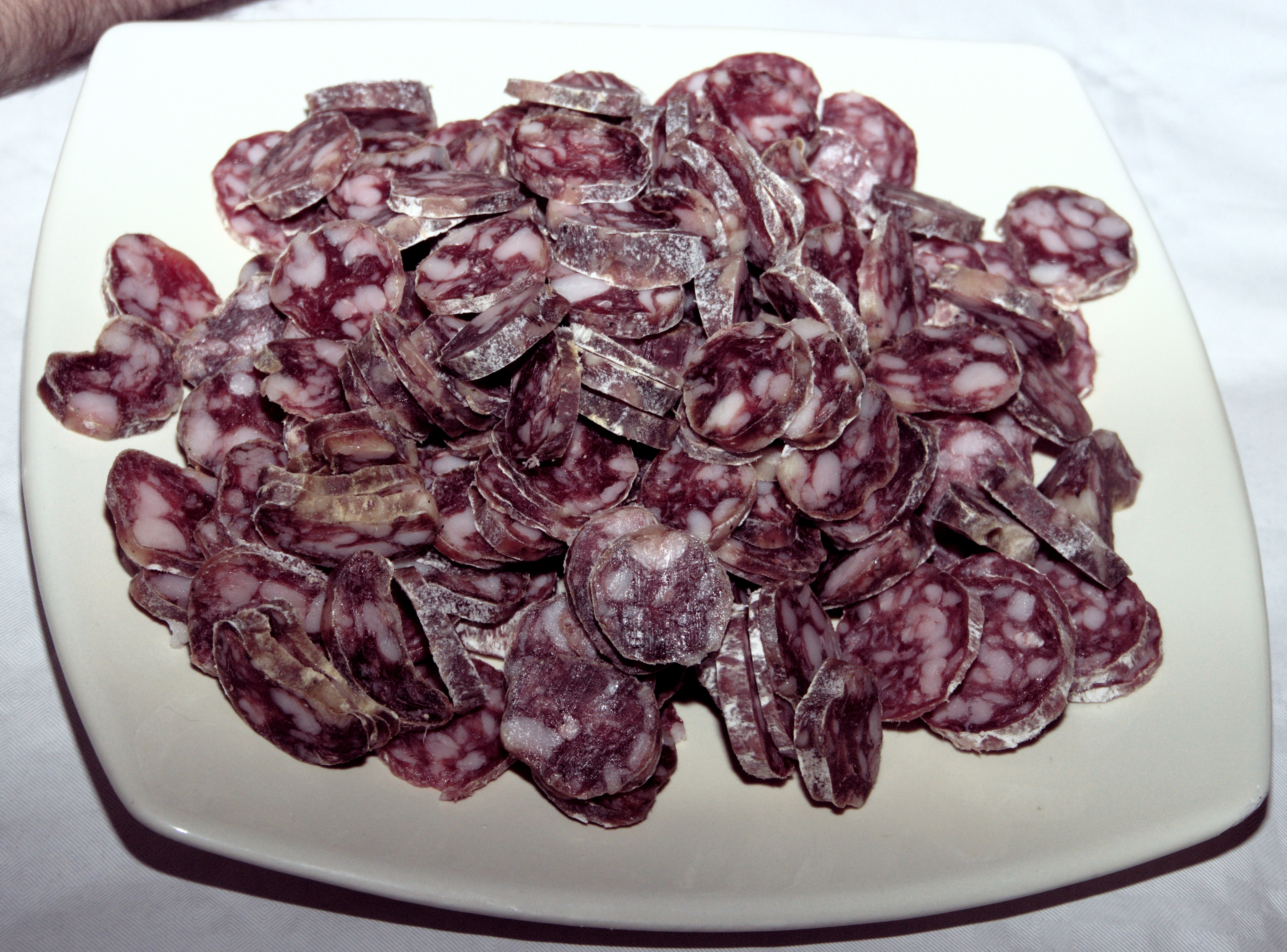 Some splices of summer sausage disposed on a plate.